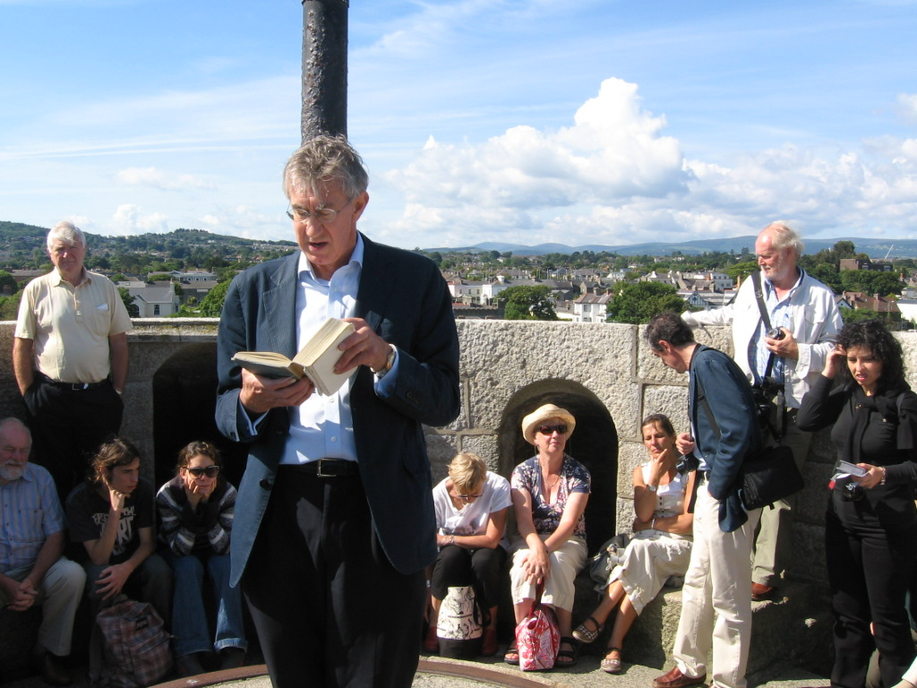 James Joyce Tower, actor Barry McGovern reading from Ulysses